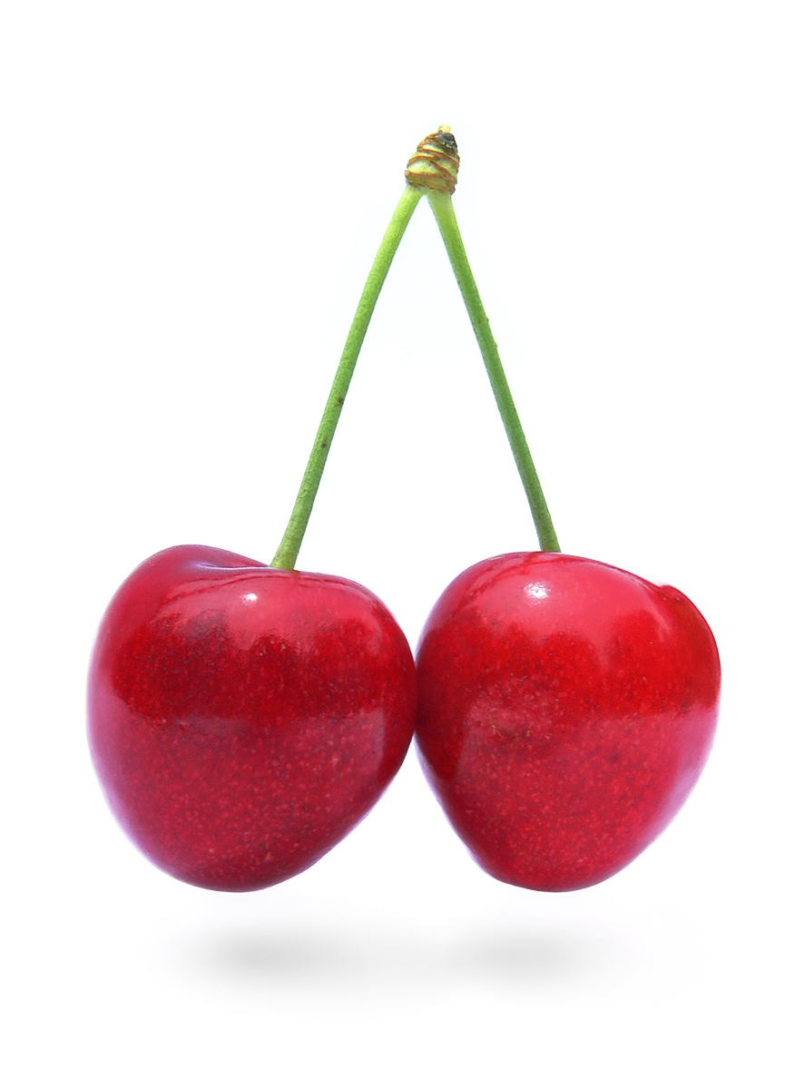 A pair of cherries from the same stalk. Prunus avium 'Stella'. This is a retouched picture, which means that it has been digitally altered from its original version. Modifications: Removed thread that the fruit were suspended by.